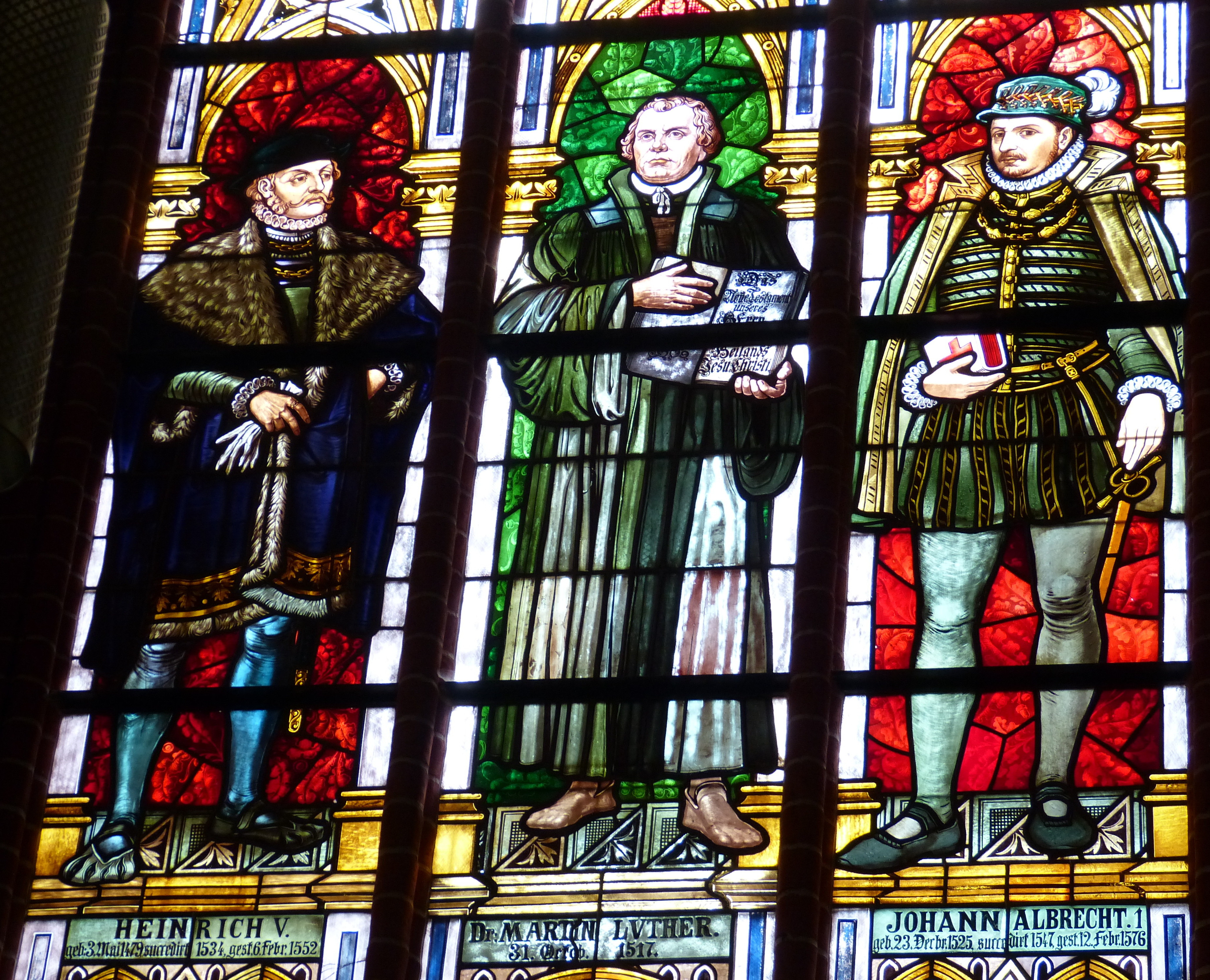 Sternberg ( Mecklenburg ). Parish church: Stained glass window ( 1895 ) commemorating the introduction of the protestant Reformation in Mecklenburg in 1549 - Martin Luther, flanked by Henry V of Mecklenburg-Schwerin and Johann Albrecht I of Mecklenburg-Güstrow.